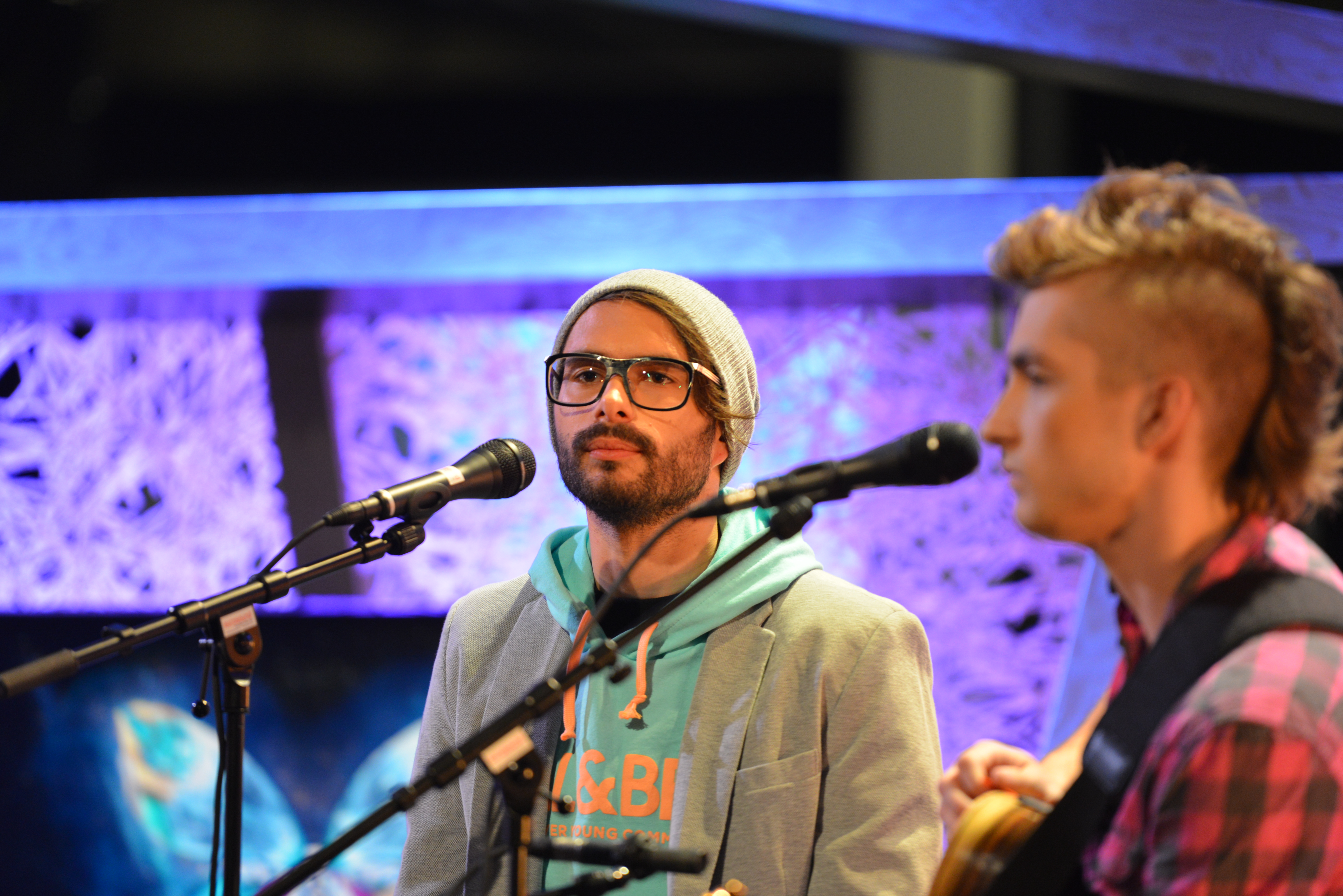 Hungarian artist ByeAlex rehearsing his Eurovision song Kedvesem in the Swedish TV-show "Studio Eurovision" inside the press centre of the Eurovision Song Contest 2013.